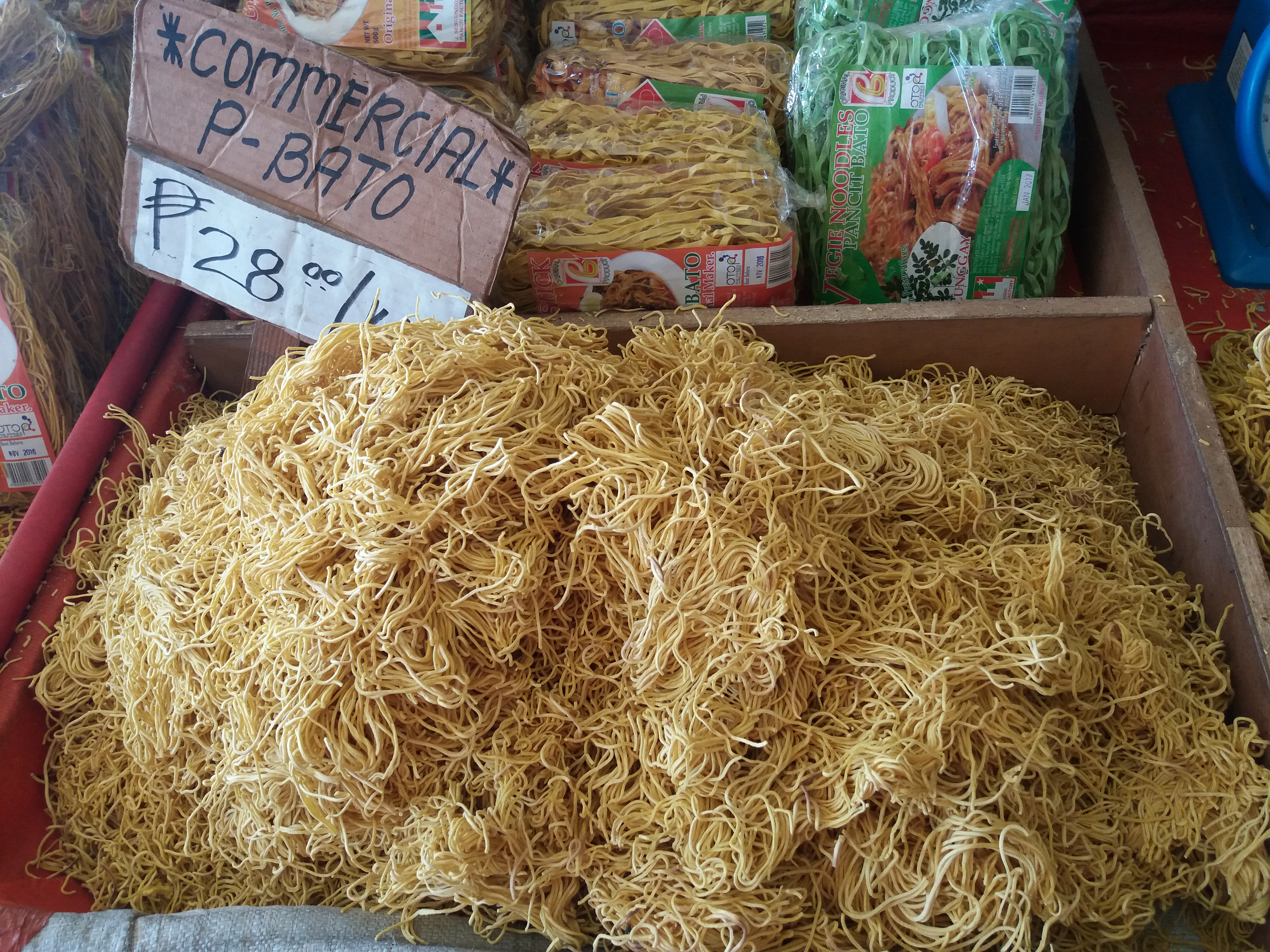 A PANSIT BATO PRODUCT IN BATO CAM SUR